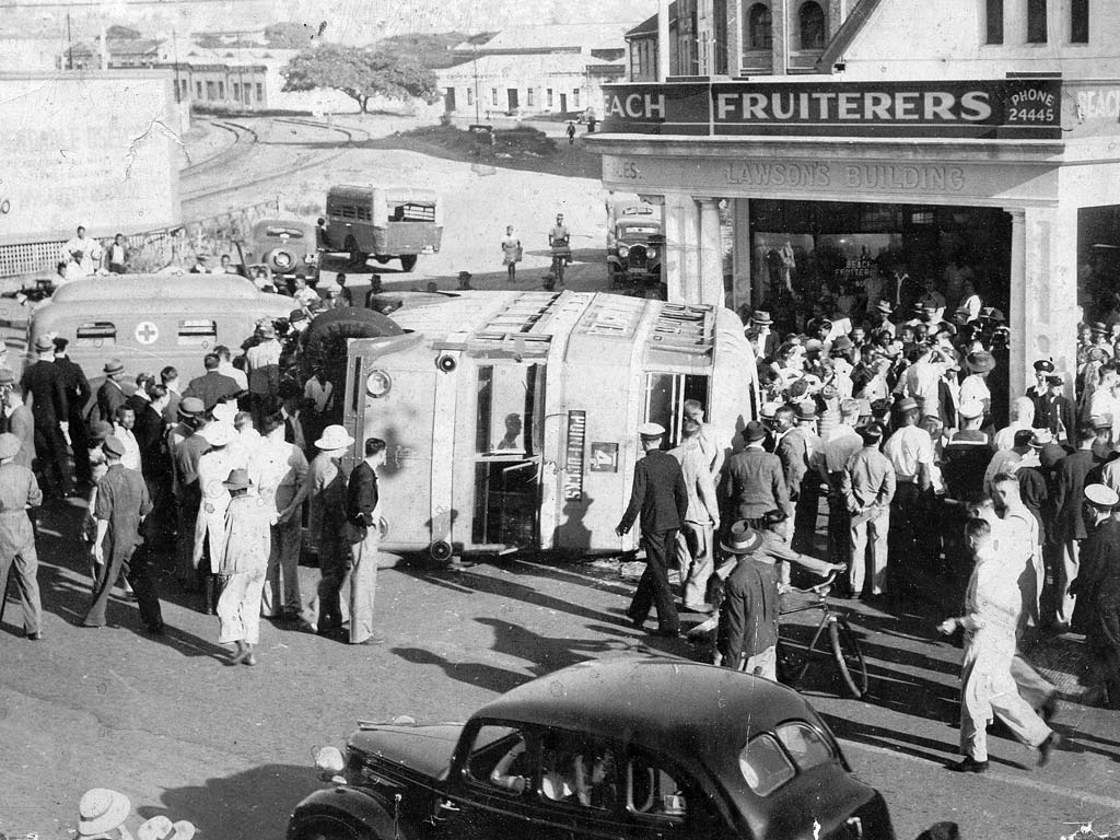 A Durban trolleybus after it had suffered a turn over at the corner of West Street and Farewell Street, Durban, injuring 37 passengers.